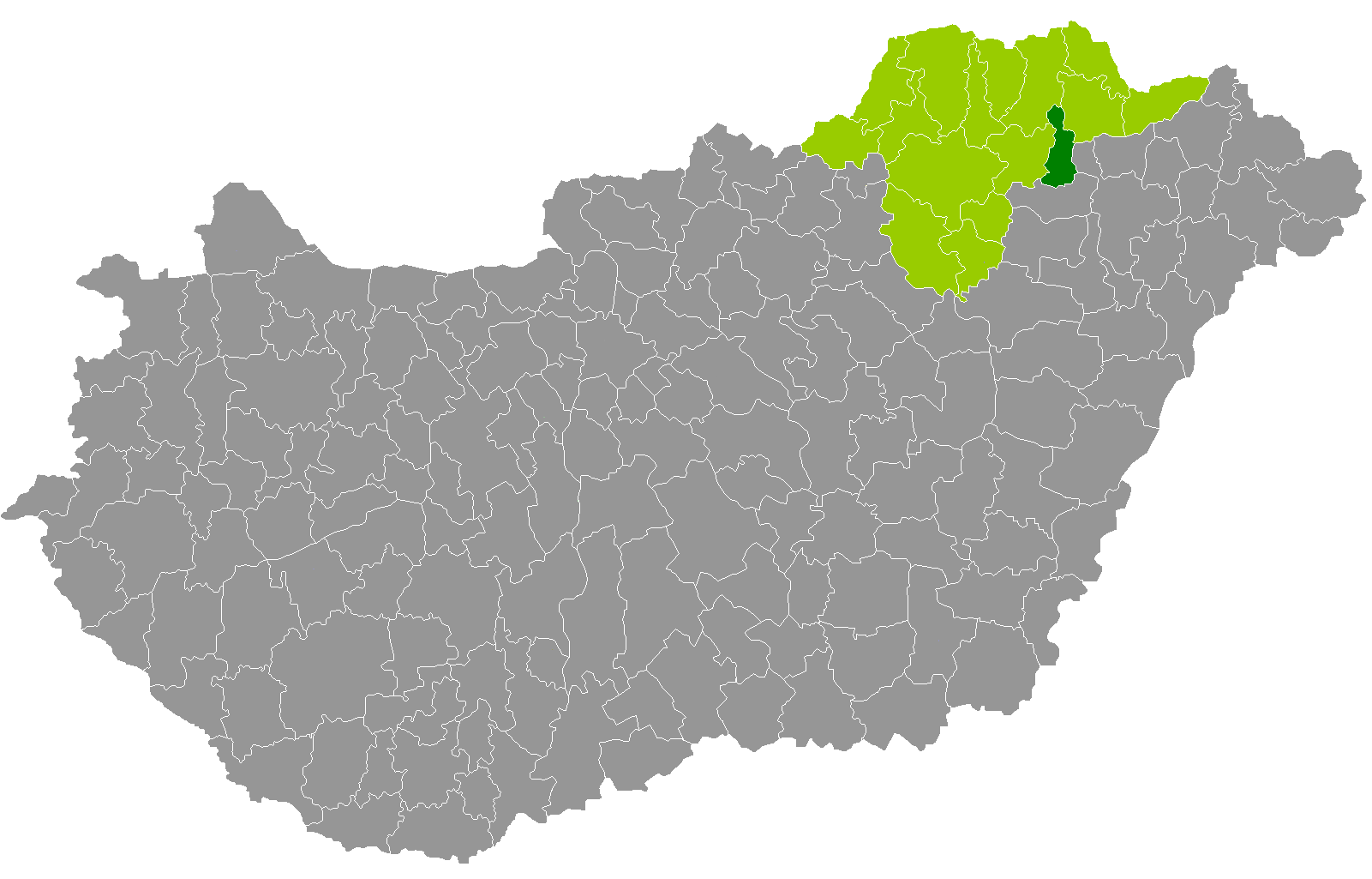 Location of Tokaj District, Borsod-Abaúj-Zemplén, Hungary